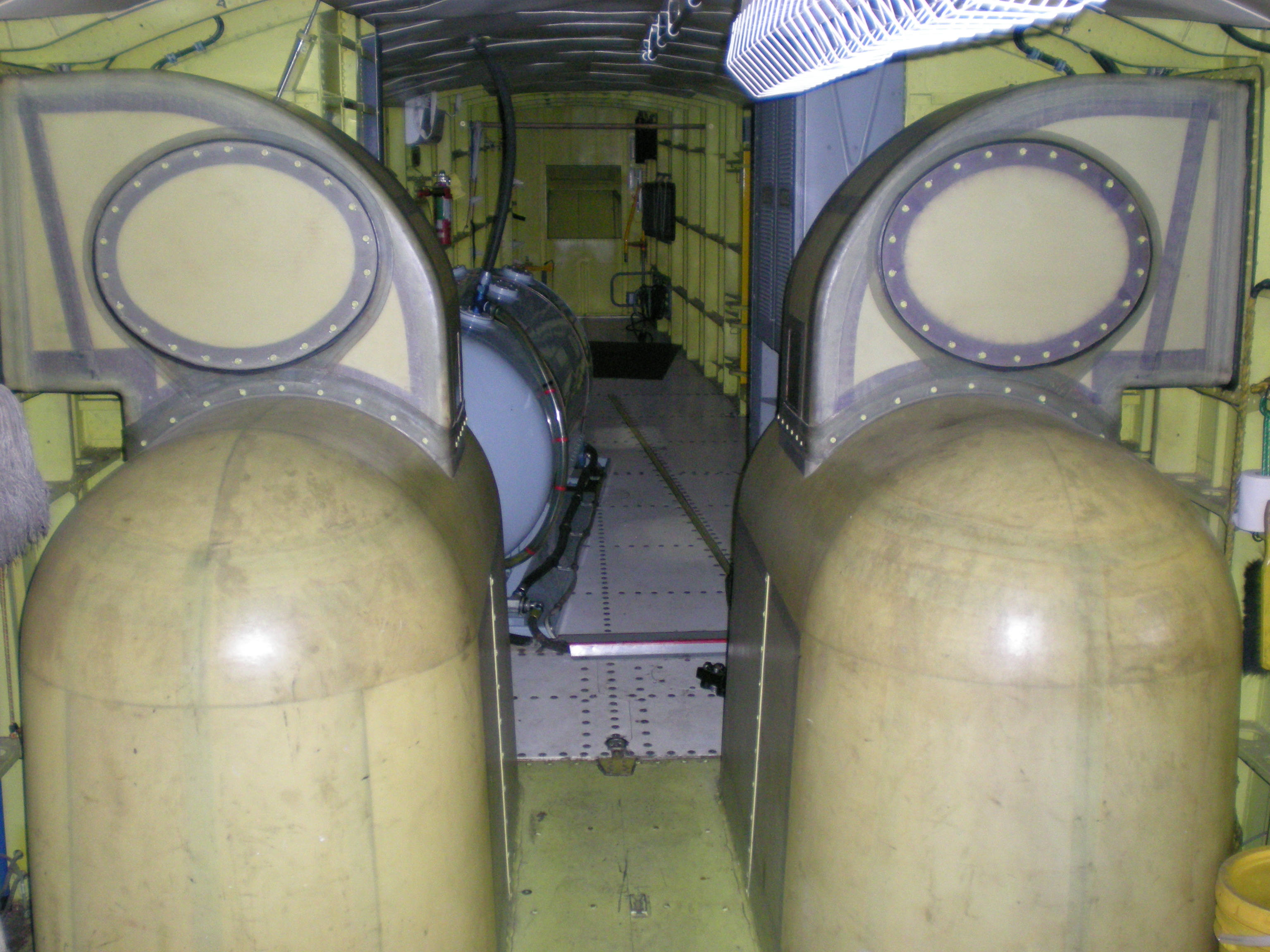 Interior showing the water tanks and fire suppressant tank. Buffalo Airways Canadair CL-215 at Yellowknife, Northwest Territories, Canada.